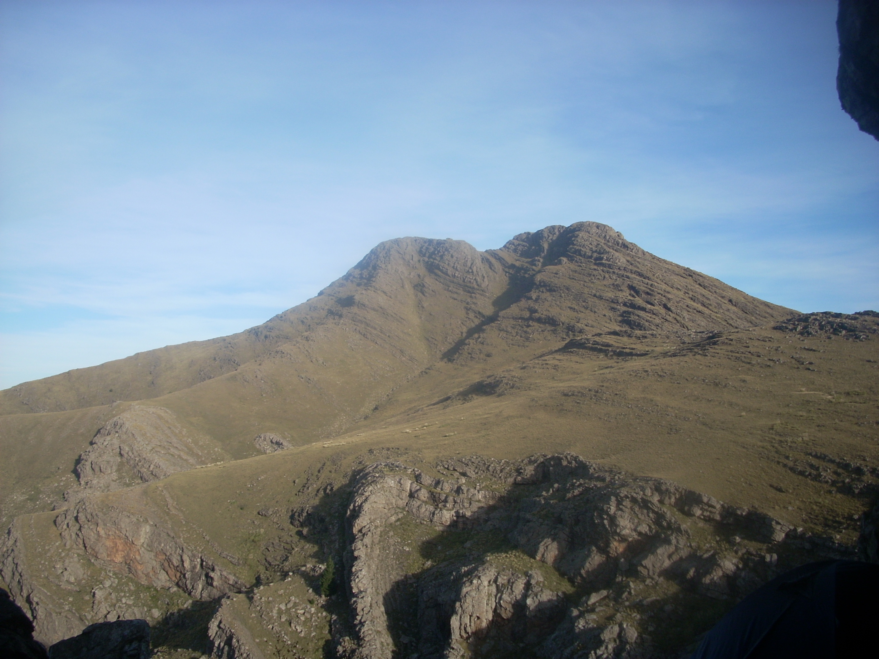 Three Peaks Hill view, from the "Guanaco´s cave".